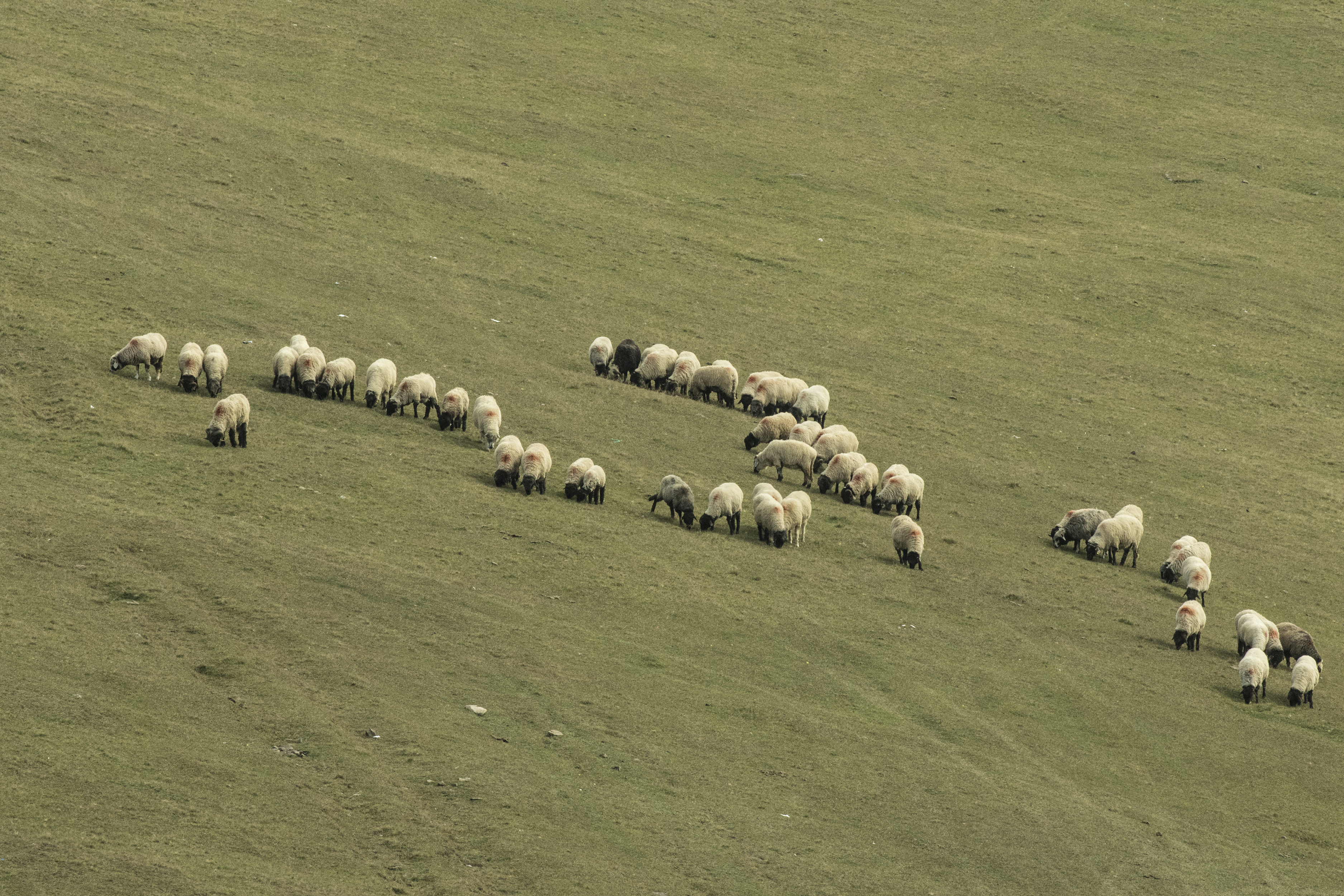 A Karayaka sheep flock grazing at the eastern pastures of Sisdağı Mt. Gökçeköy, Şalpazarı - Trabzon, Turkey.